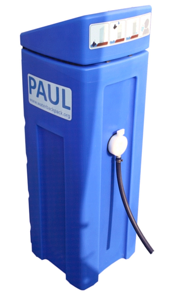 A Waterbackpack "PAUL".